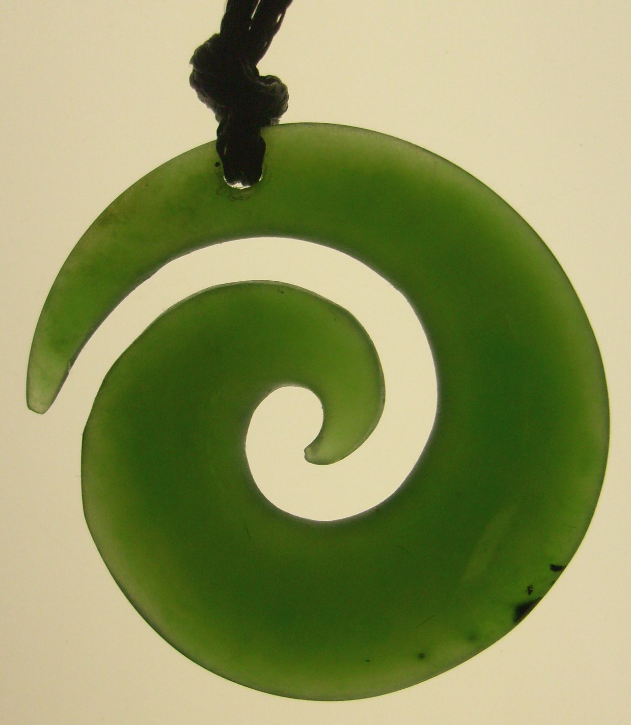 Jade pendant: Māori Style Spiral (Koru); NewZealand "Greenstone" work